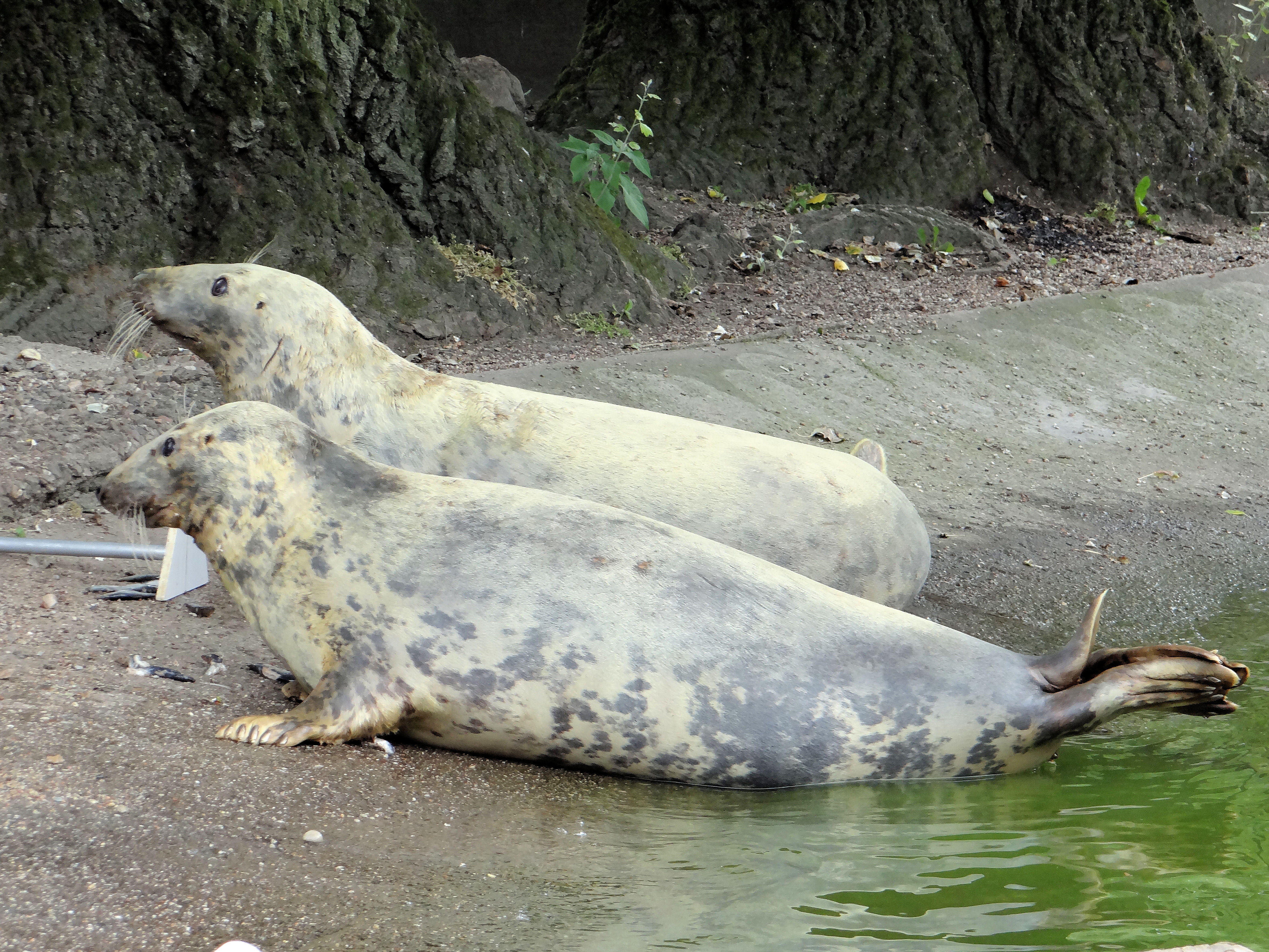 Halichoerus grypus (Grey Seal) at Warsaw Zoo